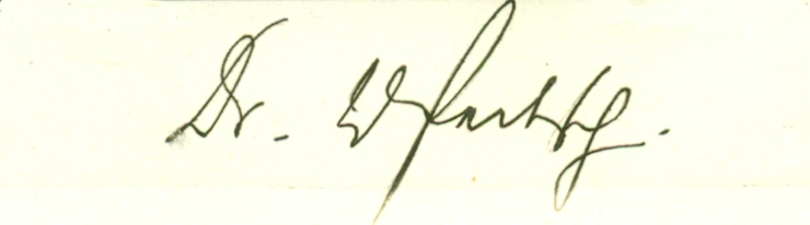 Signature of German Wilhelm Pertsch, saying "Dr. W Pertsch".